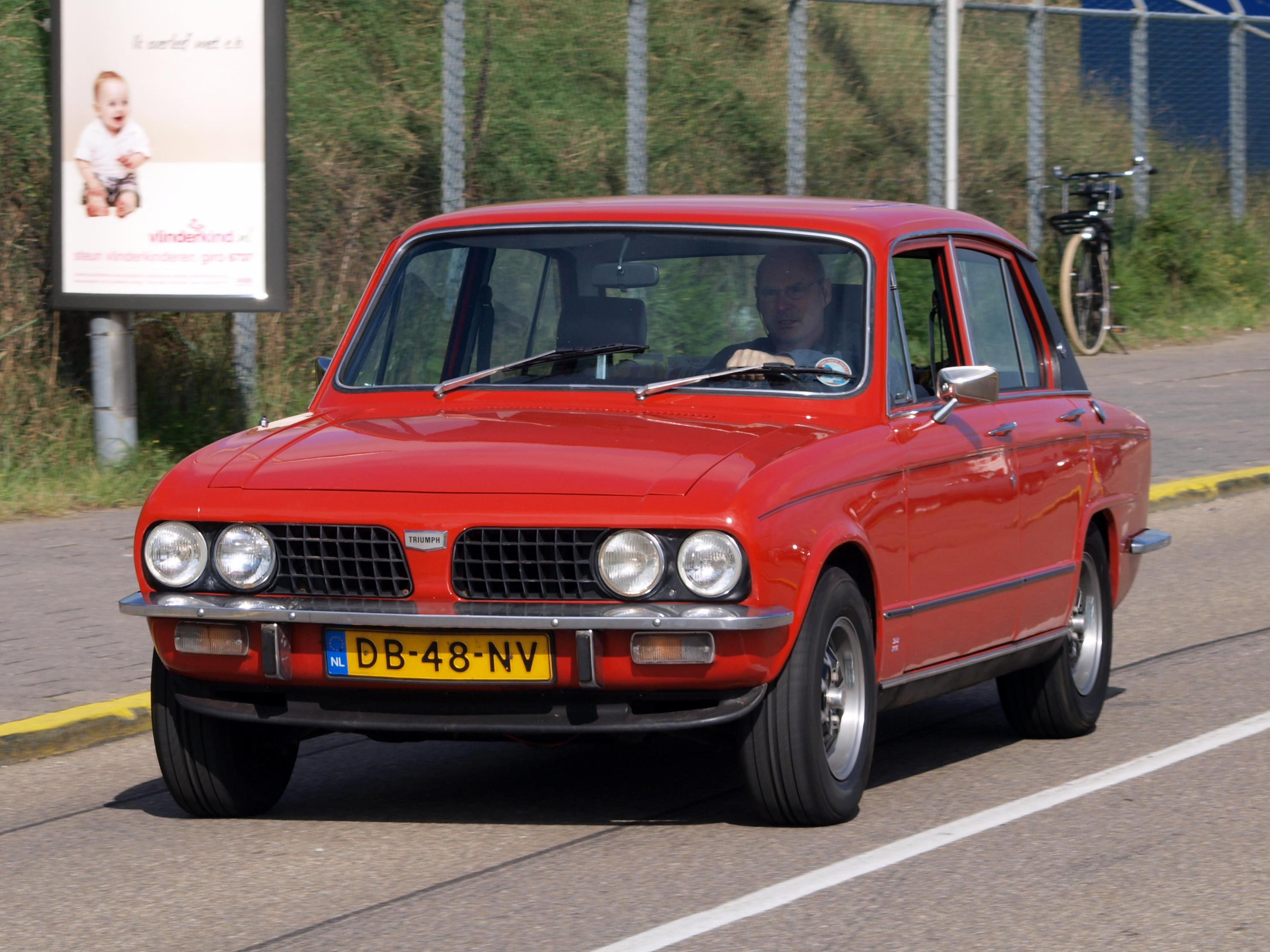 Photographed at the Nationaal Oldtimer Festival Zandvoort 2010, The Netherlands.